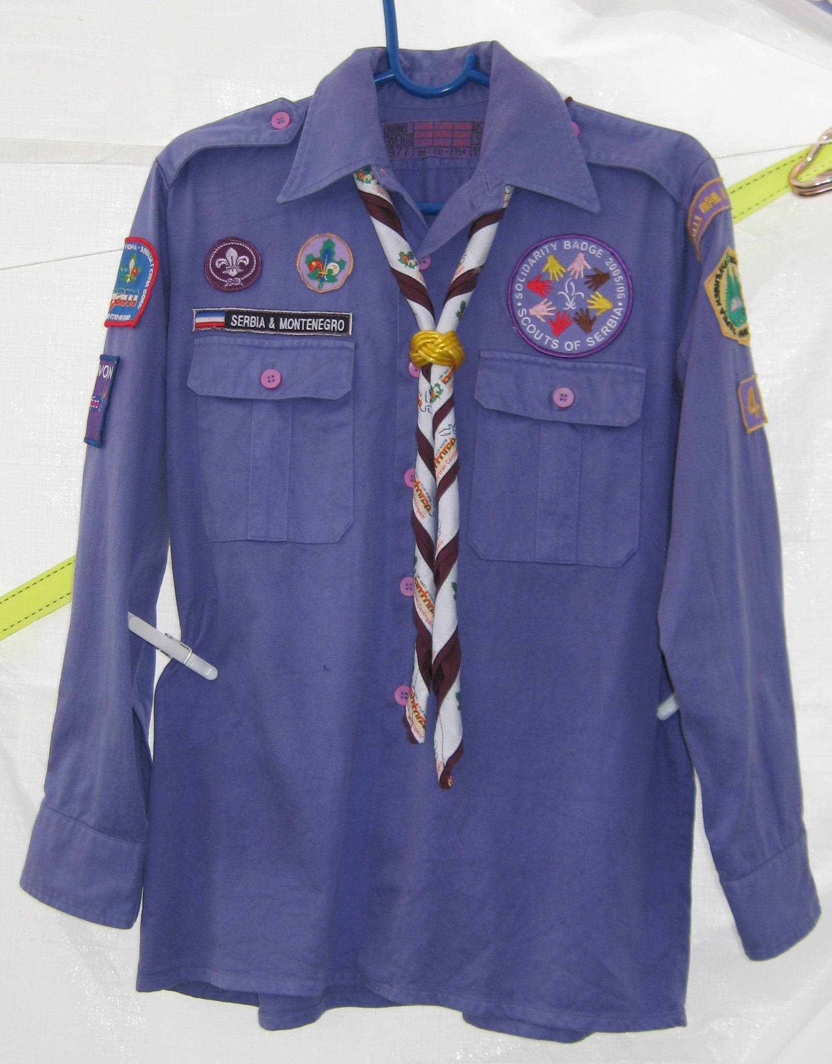 Serbian Scout uniform on exhibition during the 21st World Scout Jamboree 2007